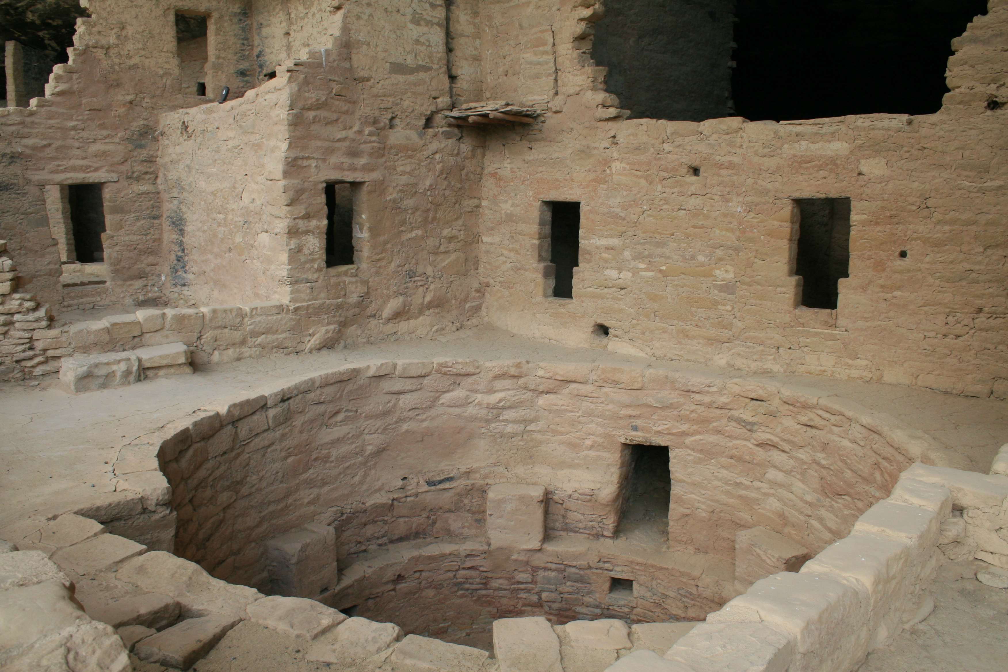 Mesa Verde National Park, Colorado Kiva at Spruce Tree House